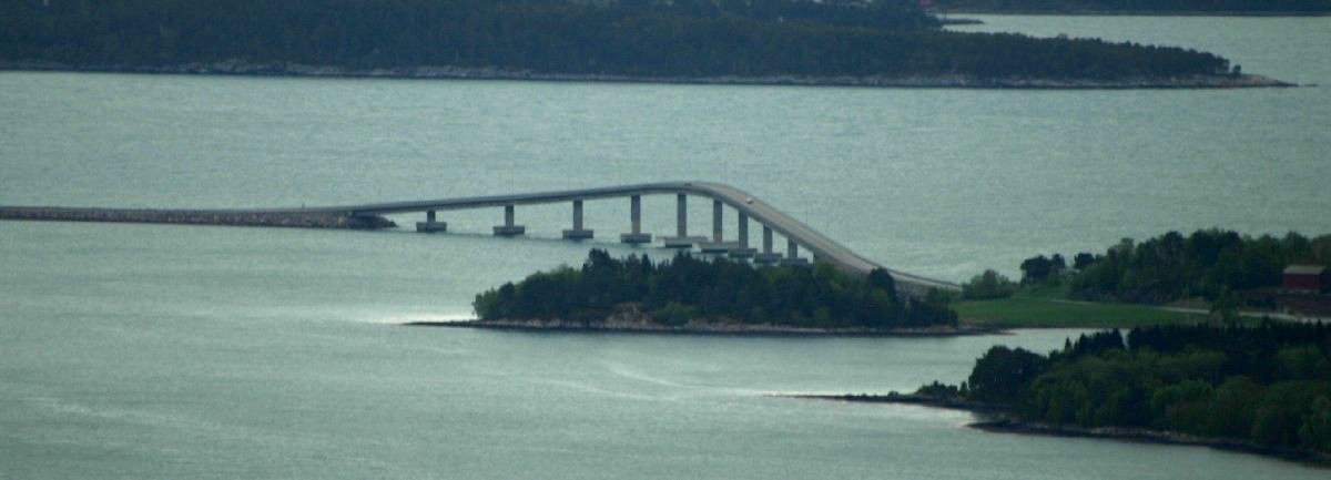 Bolsøysundbrua på Riksvei 64. Bridge at Bolsoy, northwest coast of Norway